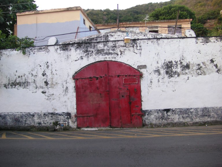 Photograph of the old HM Prison on Main Street in Road Town, Tortola, British Virgin Islands (February 2007)